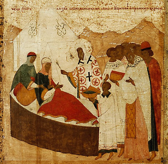 Metropolitan Alexis healing Queen Taidula from blindness. Part of icon «Metropolitan Alexis with his life».